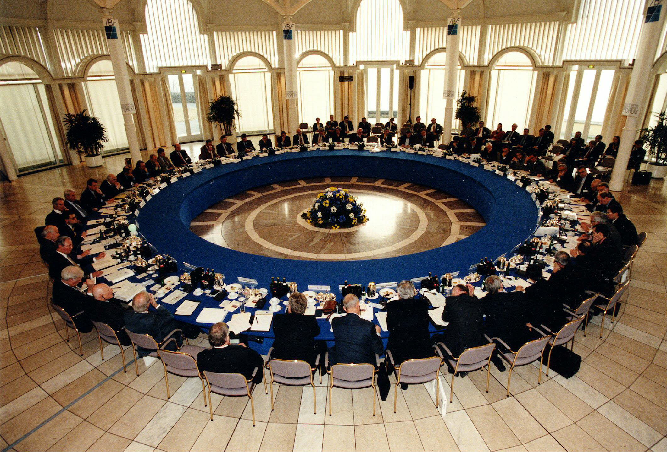 International Bertelsmann Forum, State Guest House, Bonn, Germany